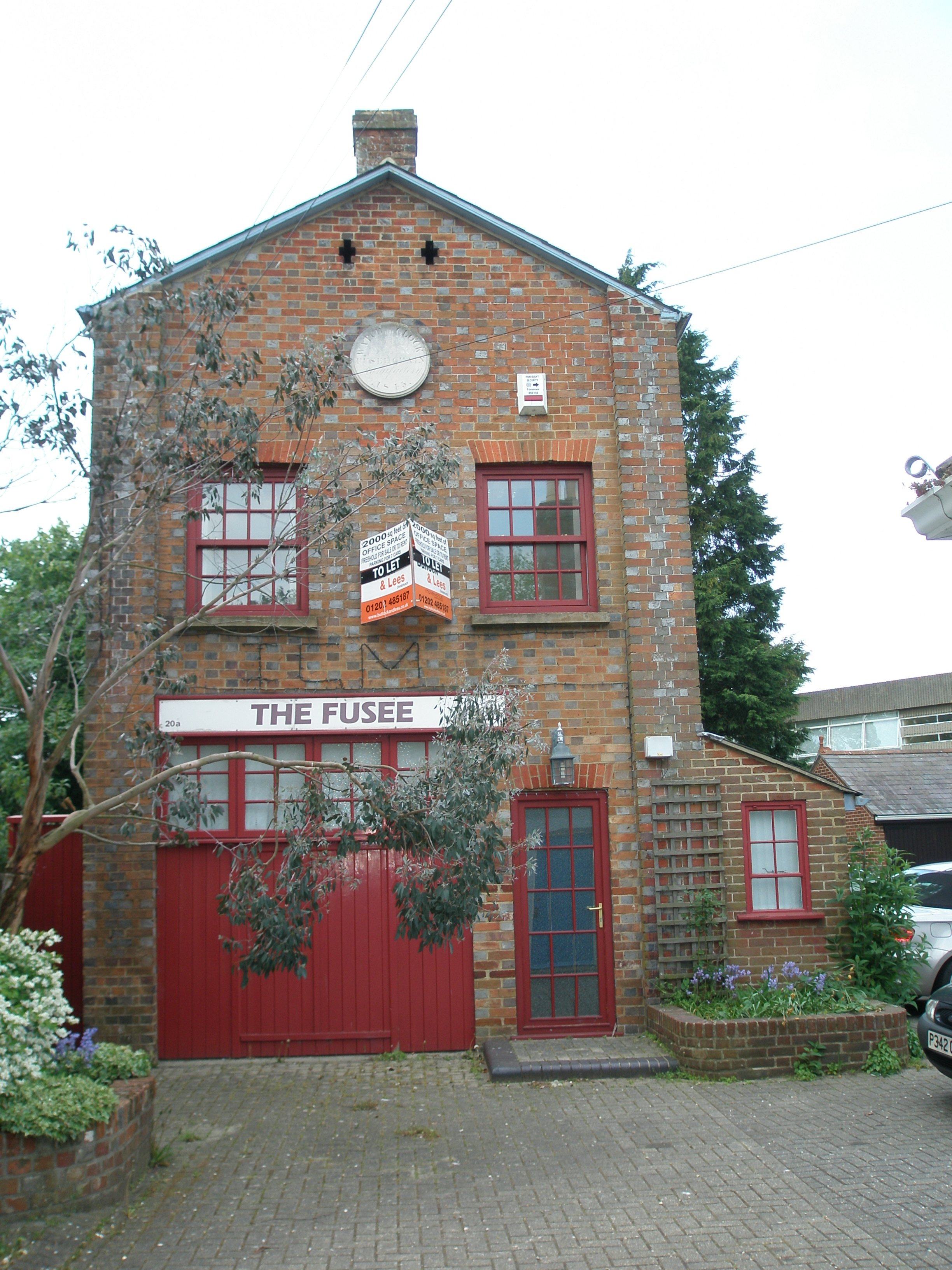 The old Fusee chain factory at Christchurch, Dorset. Built for William Hart in 1845. The building was deliberately narrow with large windows on either side to maximise the light. It closed circa 1875 when changes in the design of watches meant the chains were no longer required.